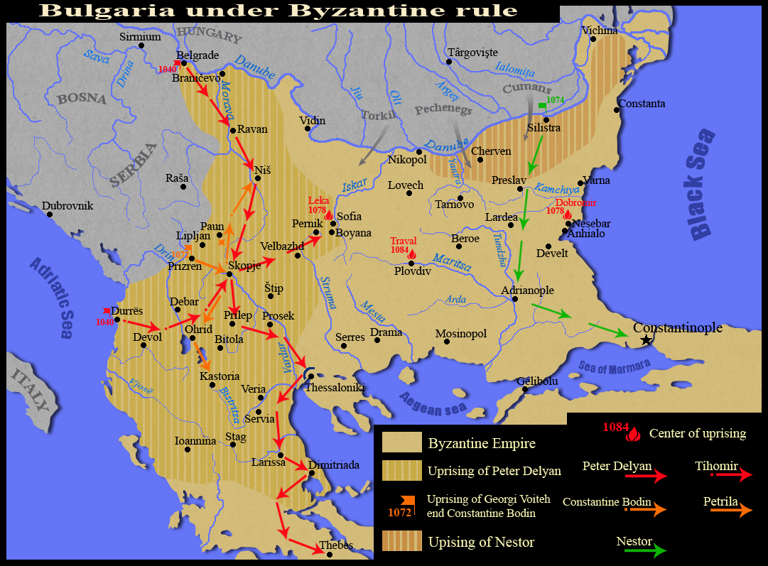 Bulgaria under Bizantine rule (1018-1185)